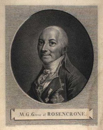 Portrait of Marcus Gerhard Rosencrone (1738-1811), count, Privy Council member, philanthropist, and Danish Prime Minister.